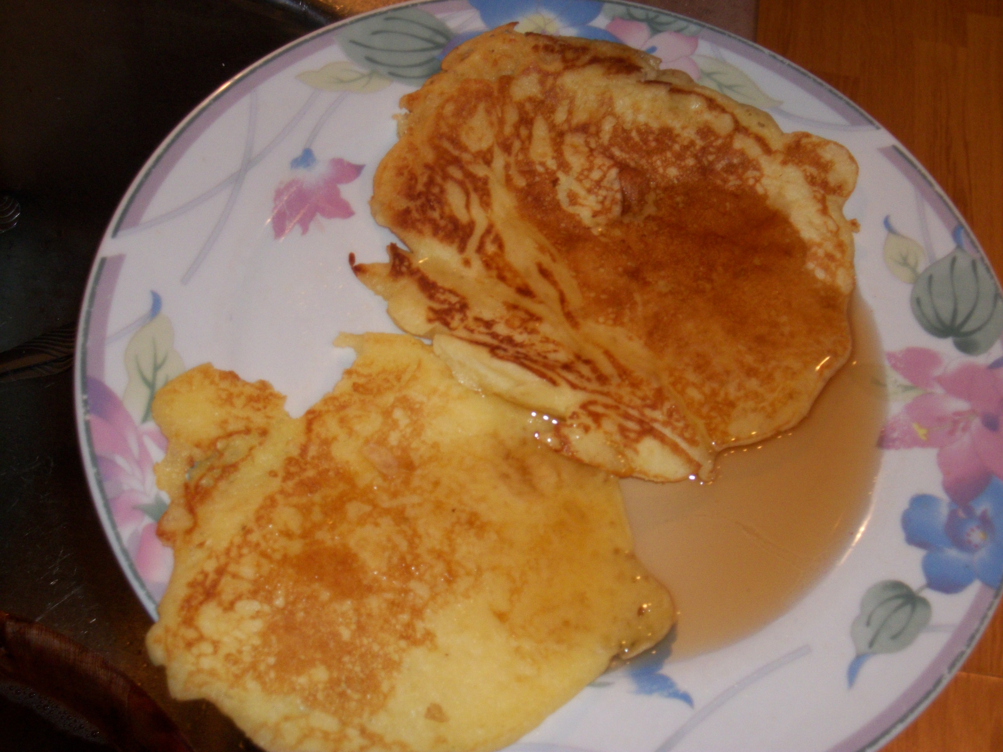 Regular pancakes with syrup